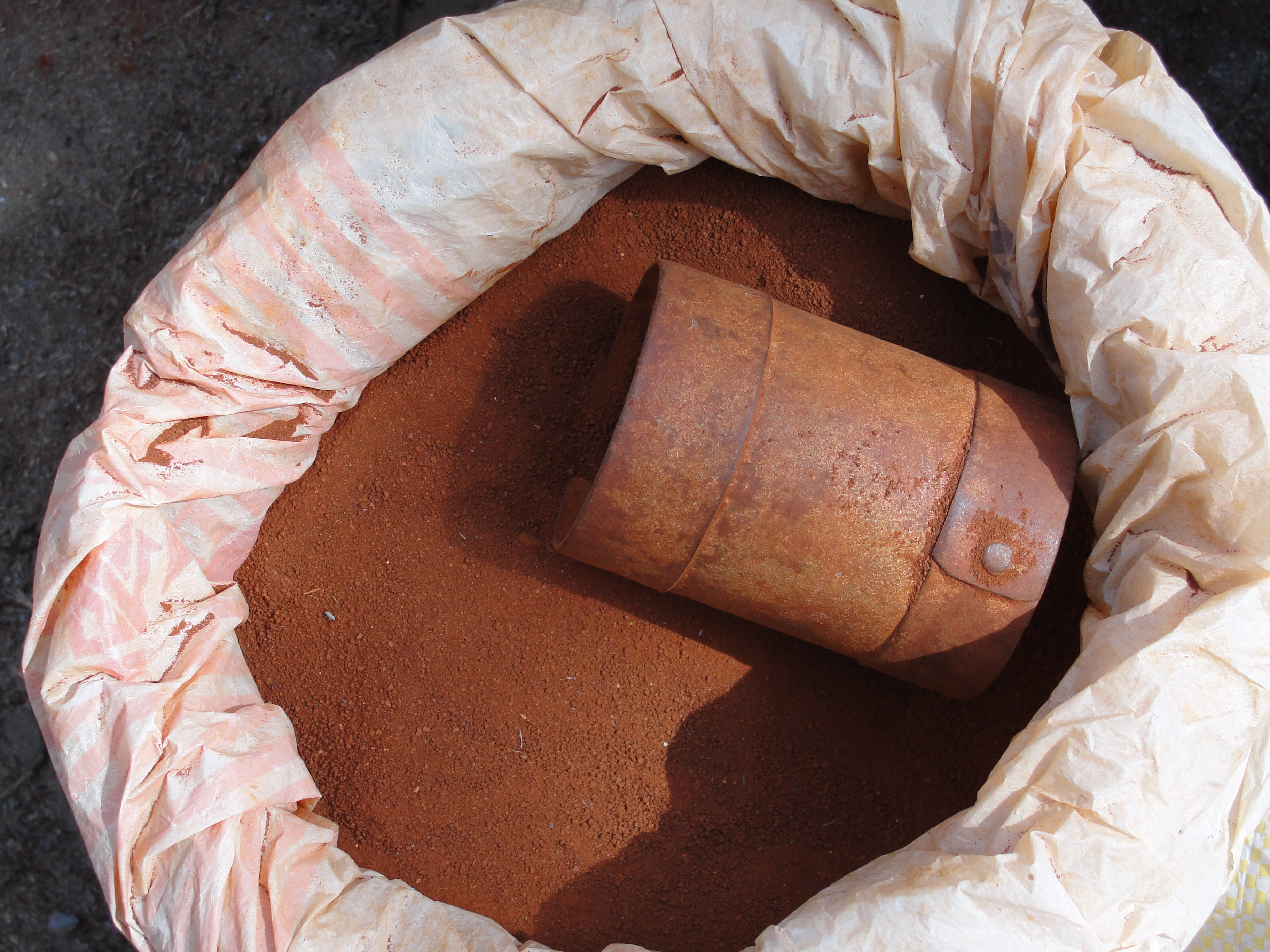 A brick powder for ornamental lines (Kolam) making